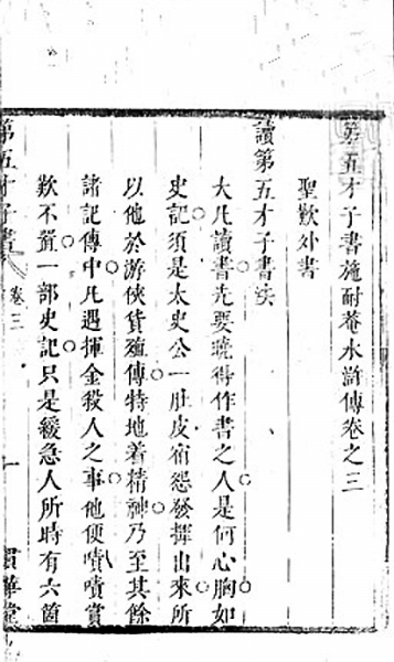 金聖嘆批點本《水滸傳》